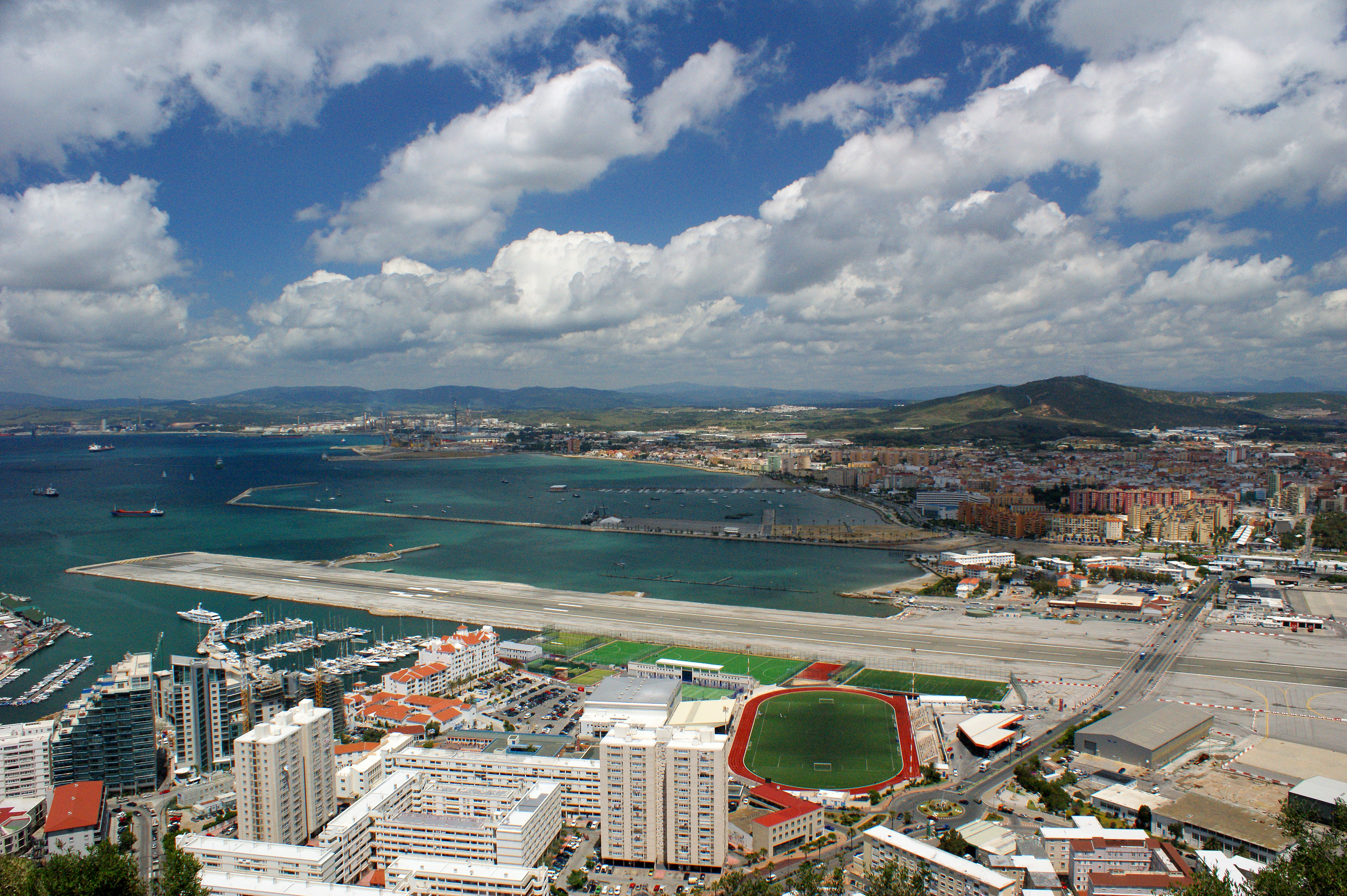 Airport and Stadium in Gibraltar